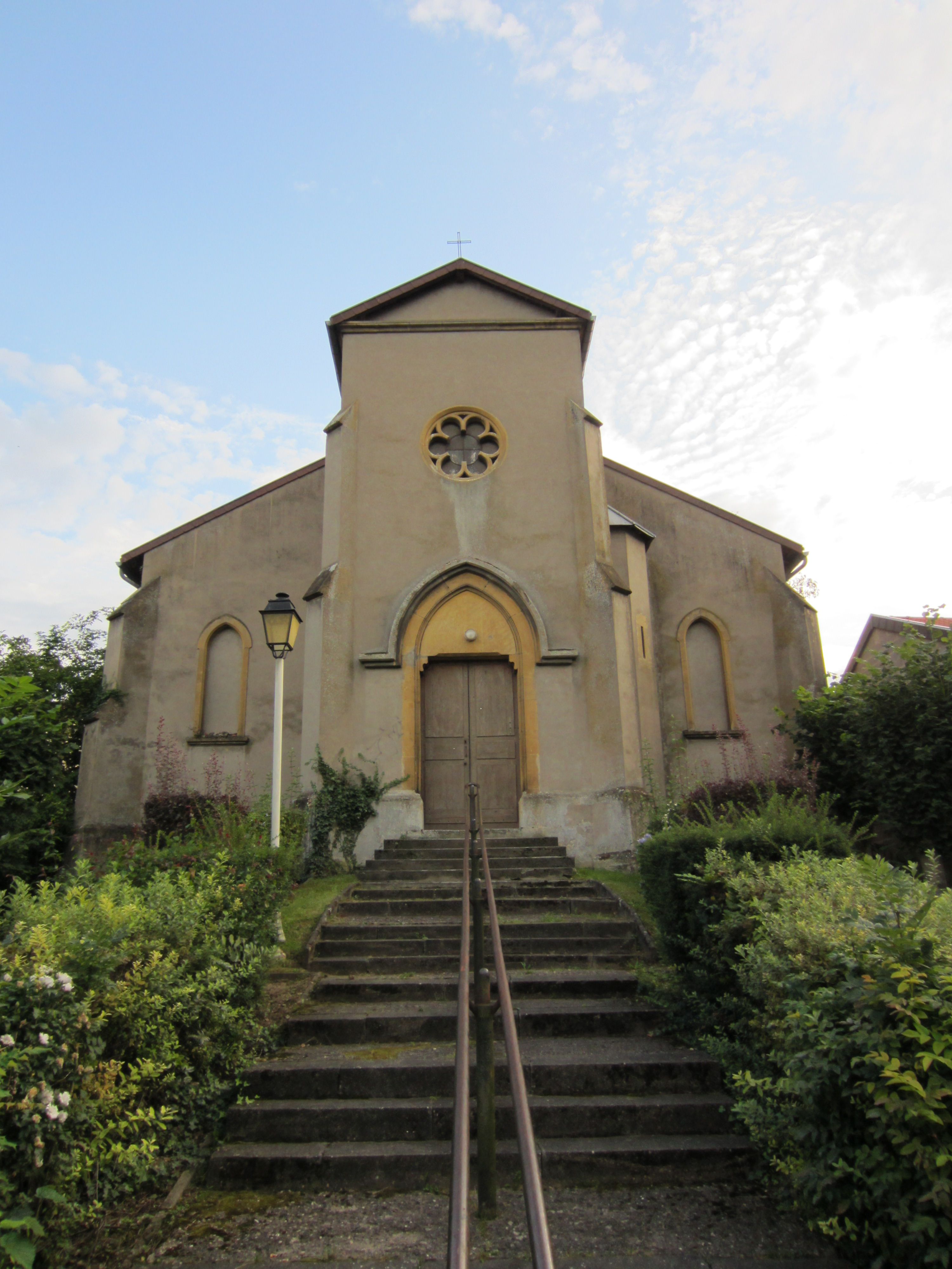 Description chapelle Ars Moselle Date2 September 2011Sourcemon appareil photoAuthorAimelaimePermission(Reusing this file) chapelle Ars Moselle